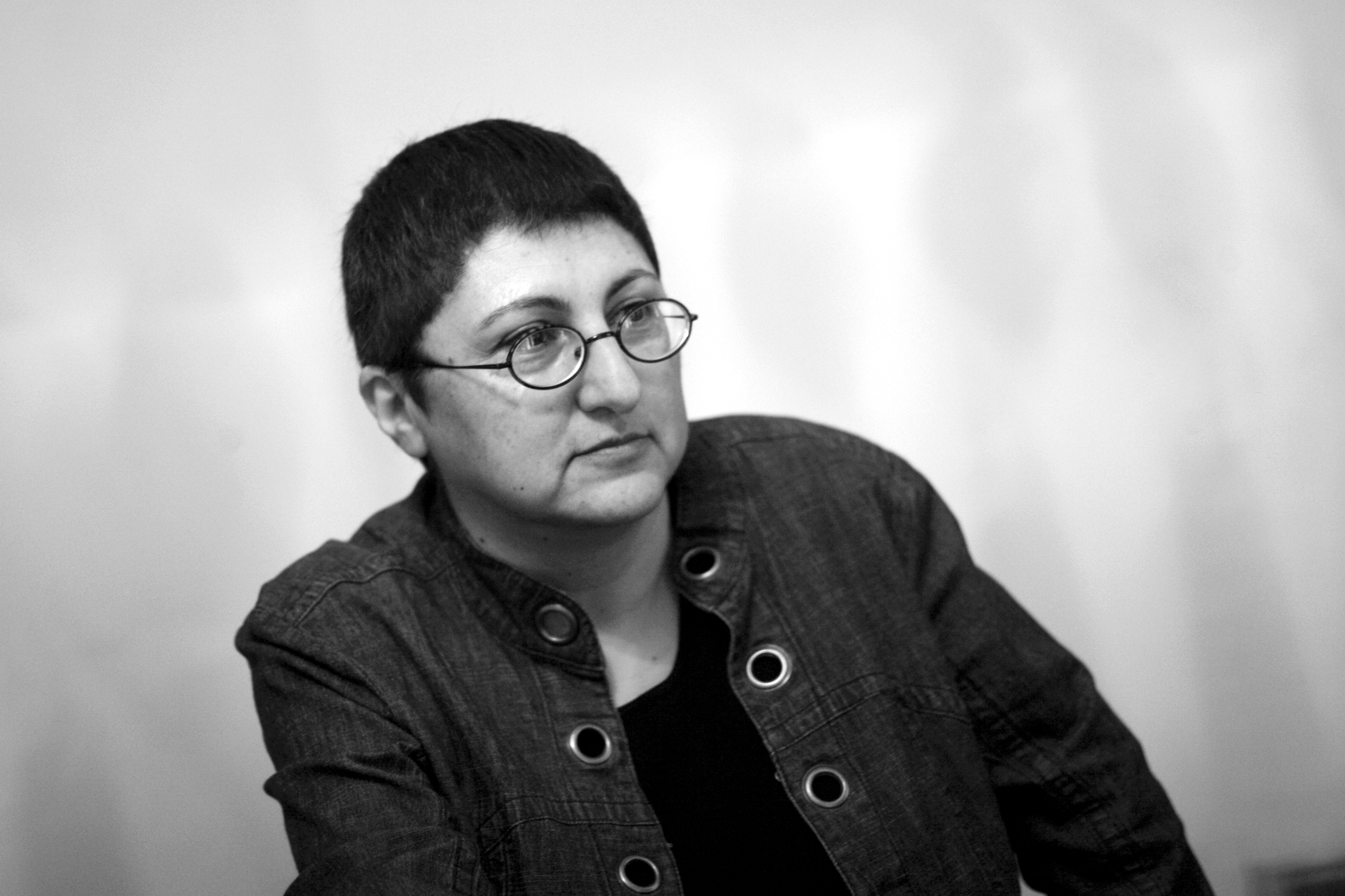 Portrait of Armenian poet Marine Petrossian